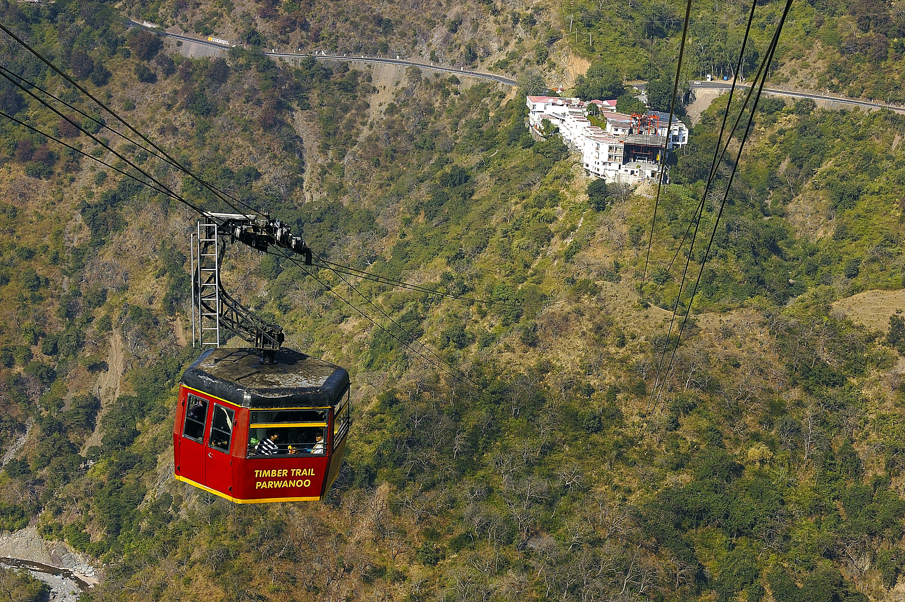 20071202_120606 timber_trail_ropeway_in_himachal